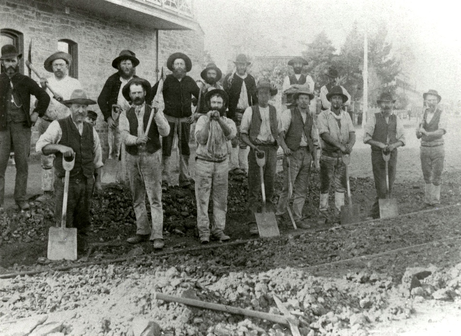 Fifteen "navvies" or road workers are posed in this photo while restoring the road surface in which a horse tram track has been laid in the Adelaide suburbs. The print states "Mitcham, approximately 1880".